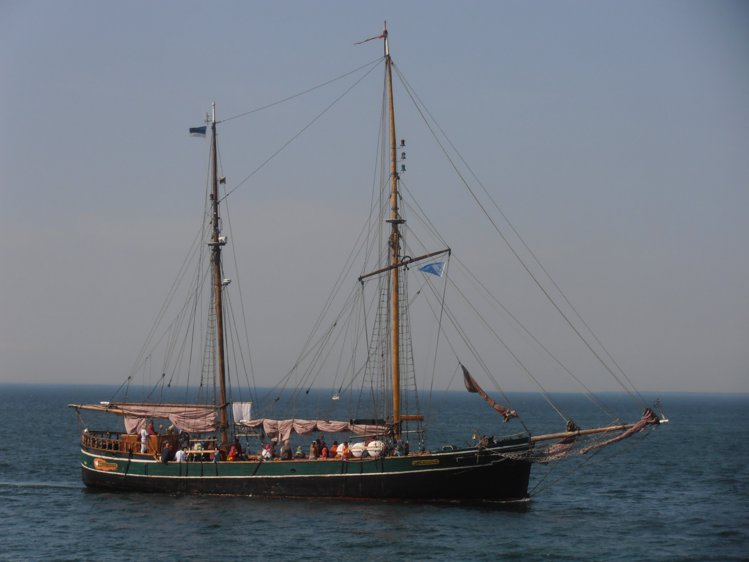 Kajsamoor arriving at Tallinn 2 June 2013